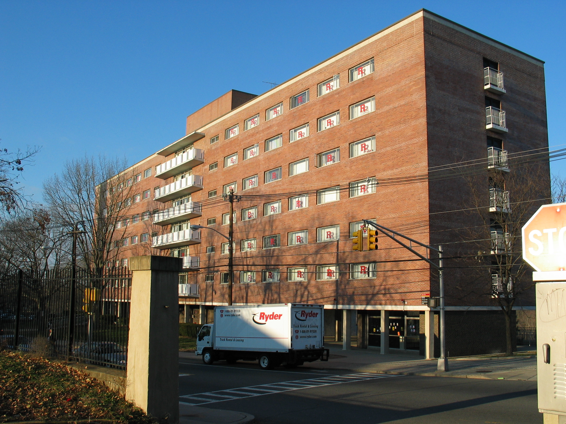 Hardenbergh Hall, College Avenue Campus, Rutgers University